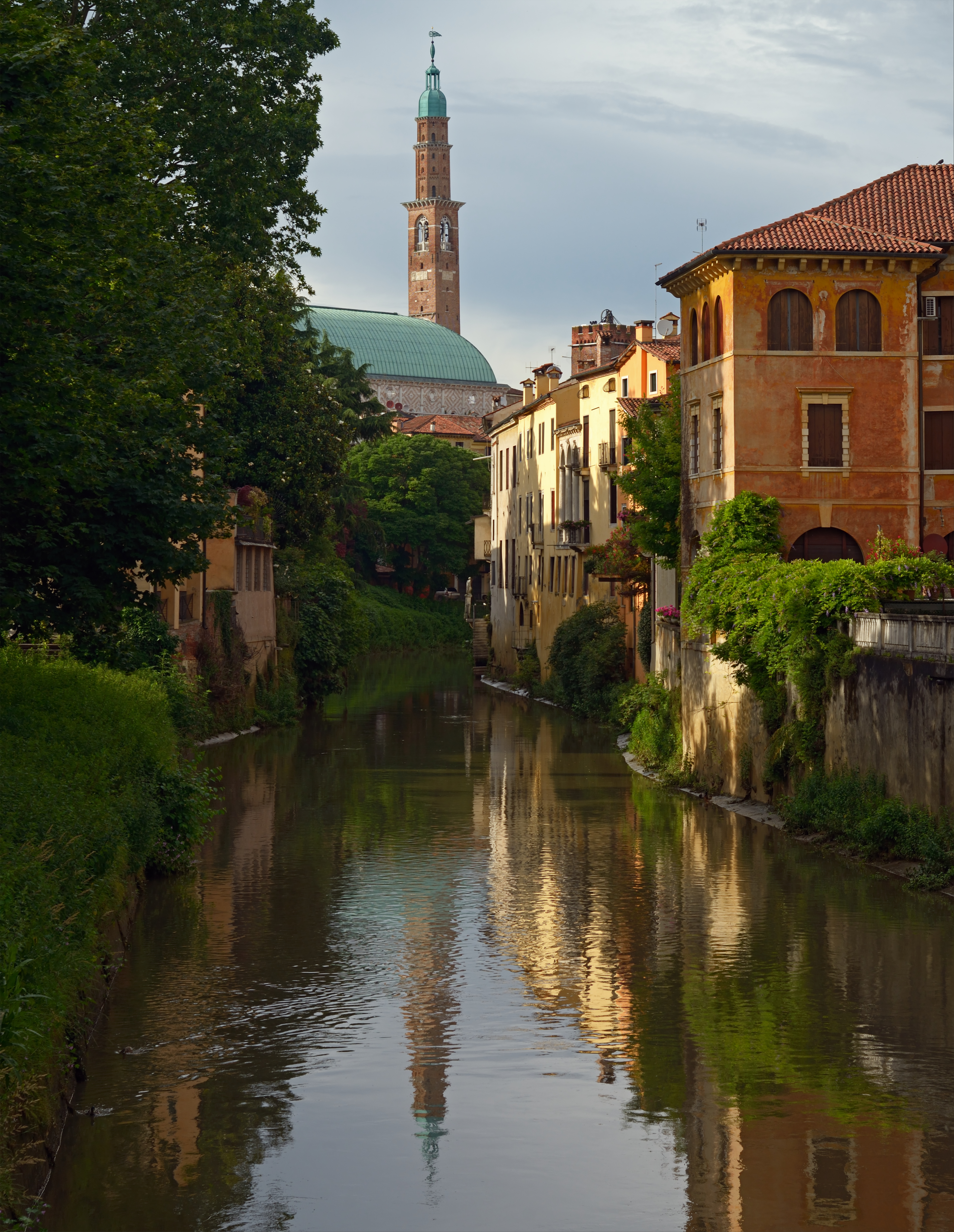 Retrone and clock tower of Basilica Palladiana. Vicenza, Italy